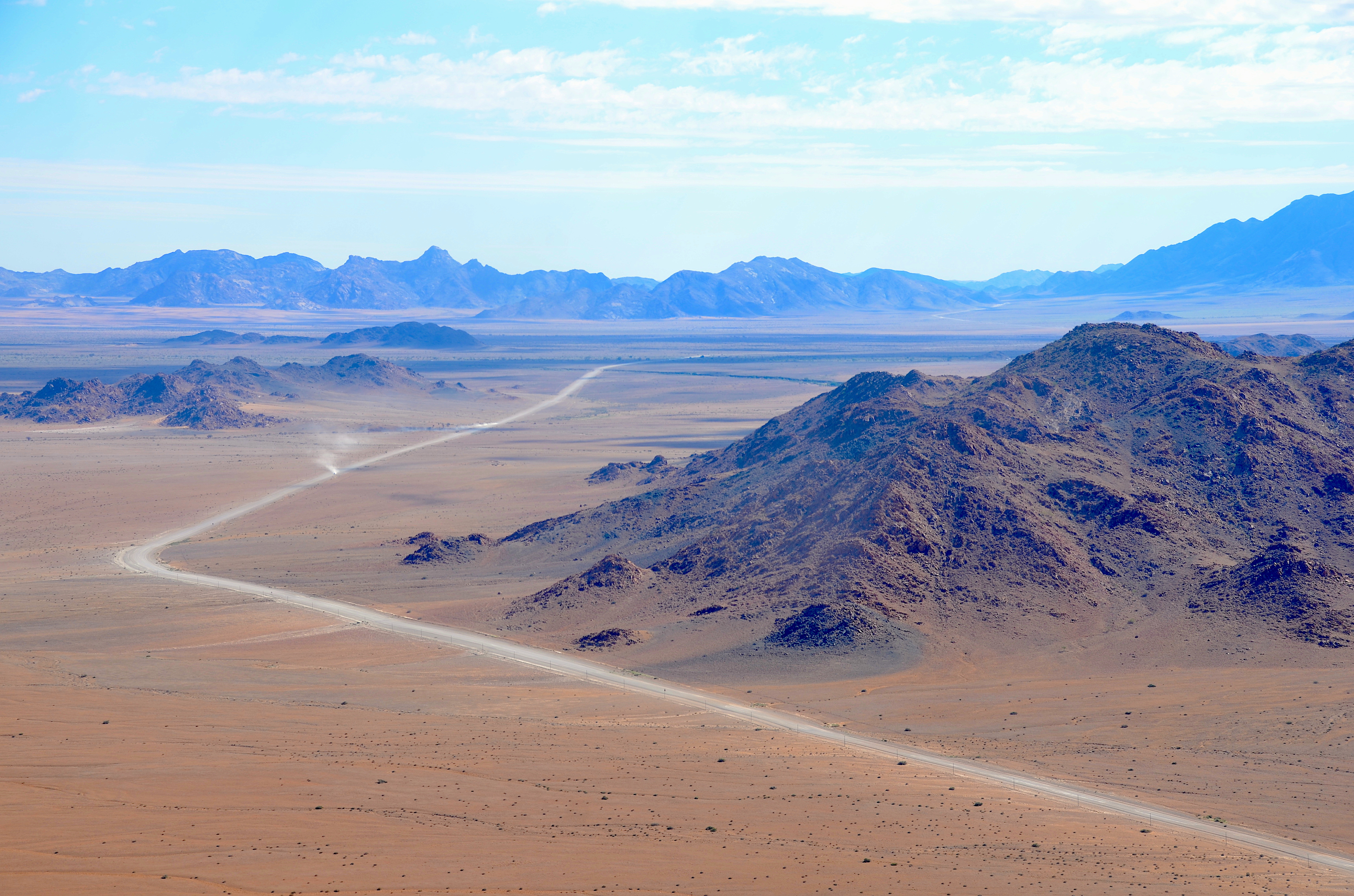 Main road C19 near Sesriem in Namibia (2017)